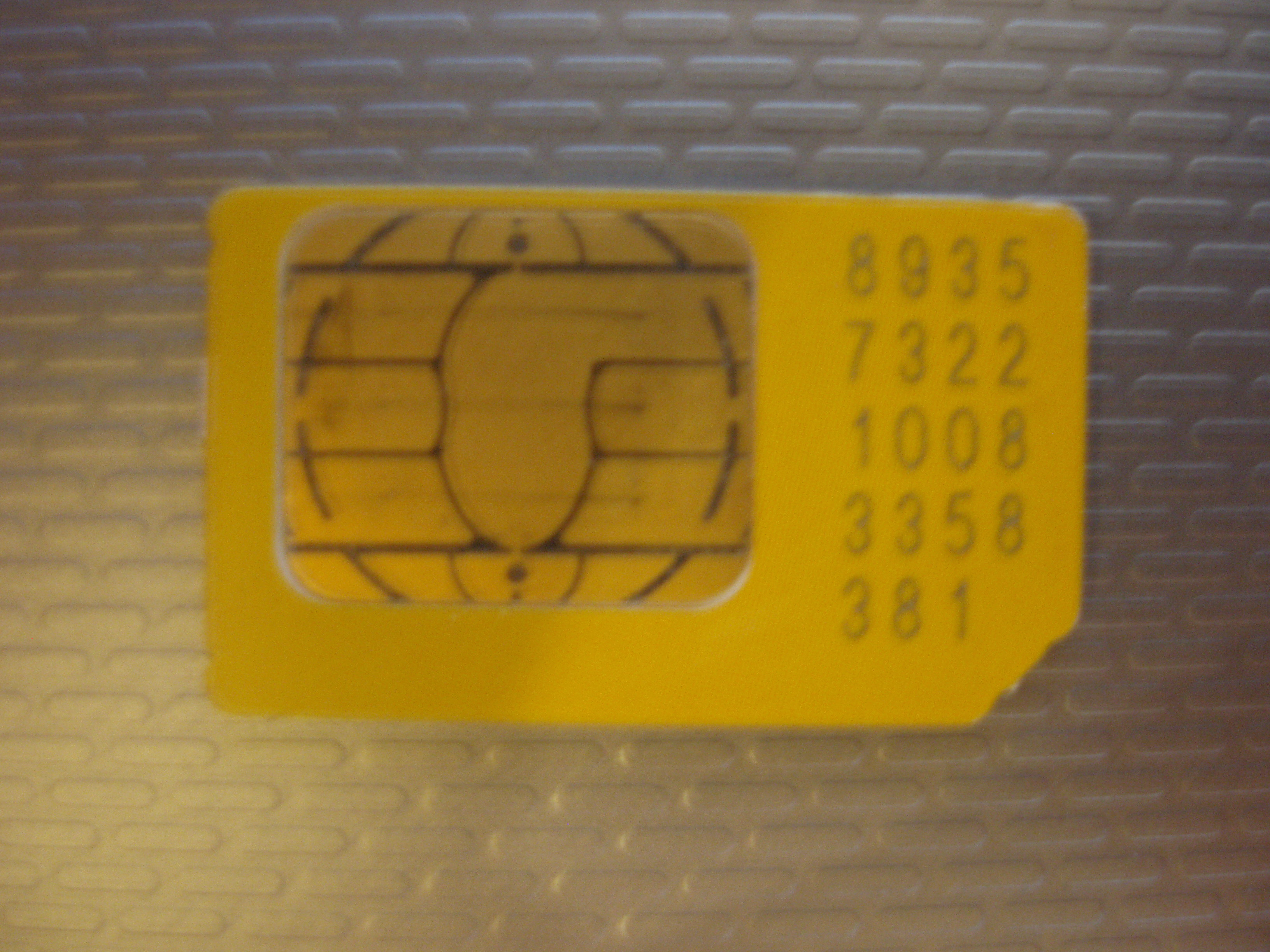 SIM card